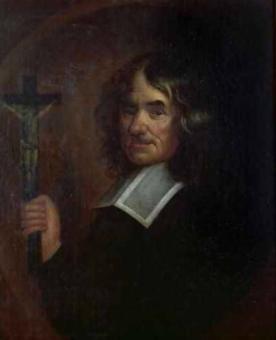 Portrait of Dom John Huddleston O.S.B. (1608-98).